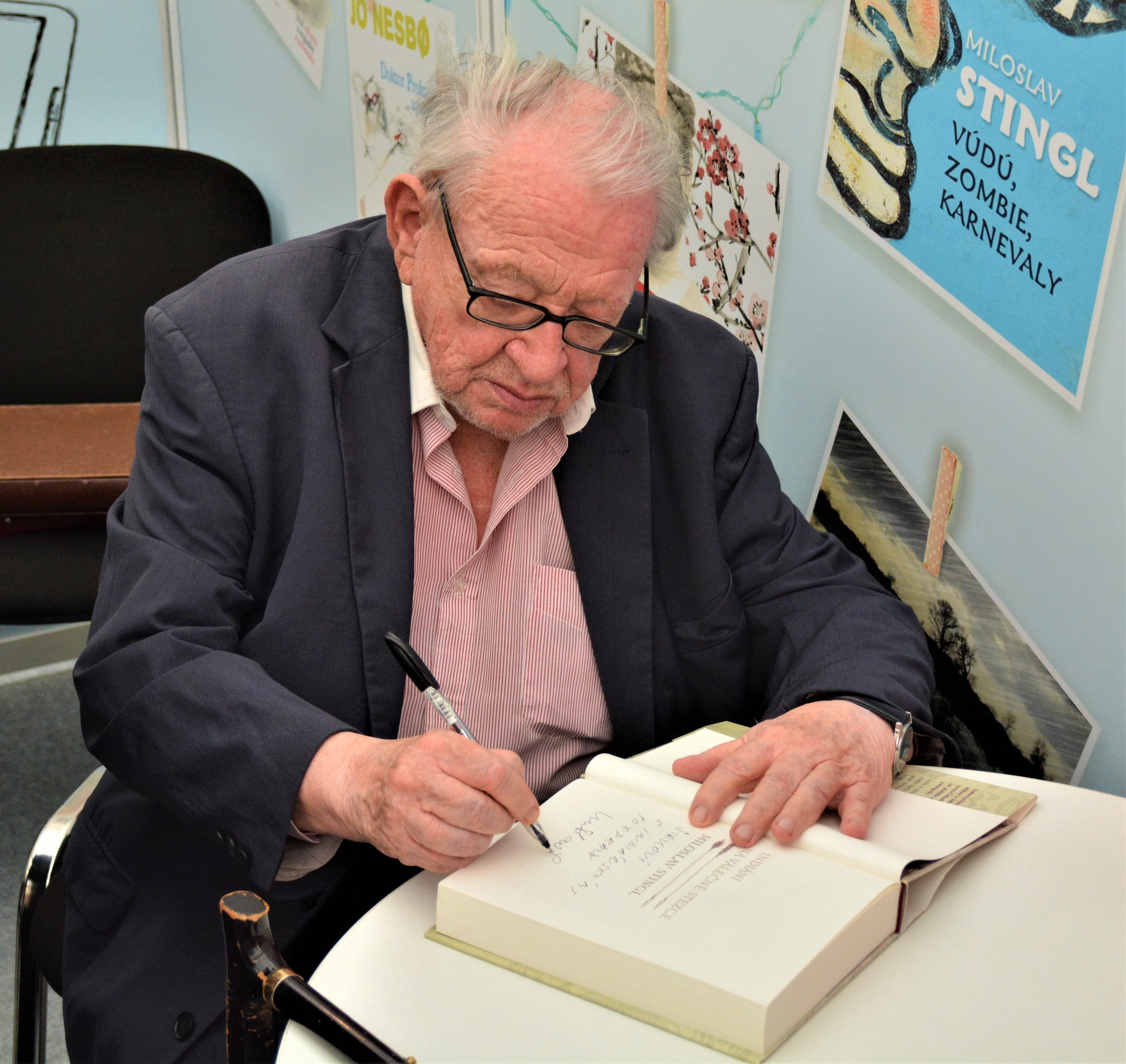 Miloslav Stingl, Czech traveler and writer